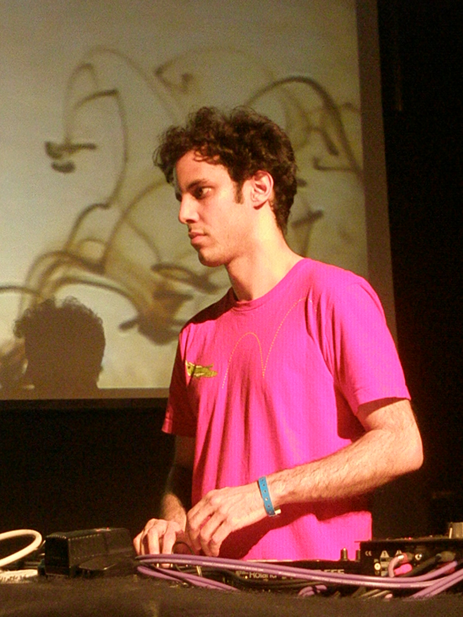 Kieran Hebden (Four Tet) performing with Steve Reid at Circulo de Bellas Artes in Madrid (Spain) for Red Bull Music Academy, on April 11th, 2008.